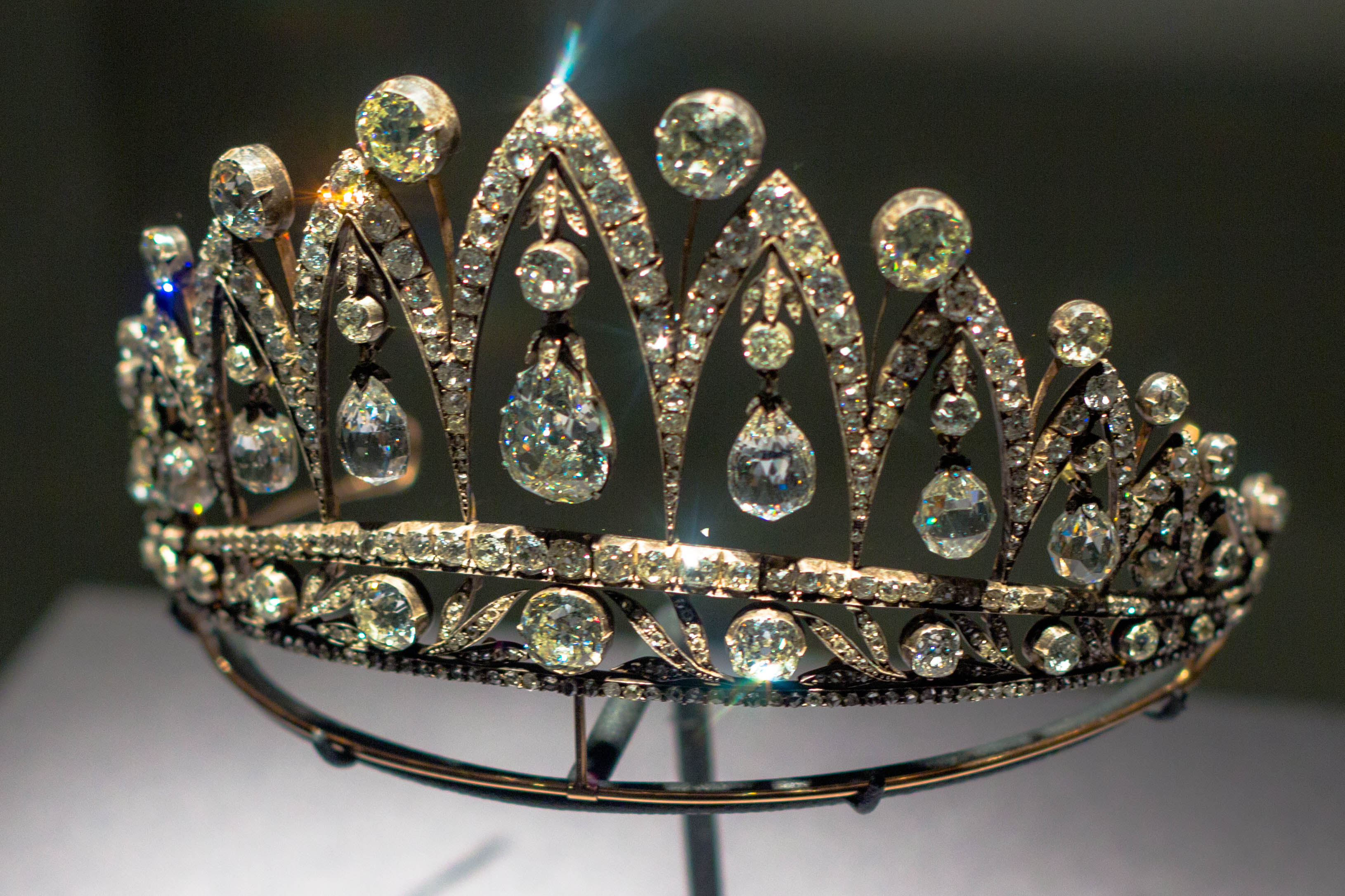 Empress Josephine Tiara by Fabergé